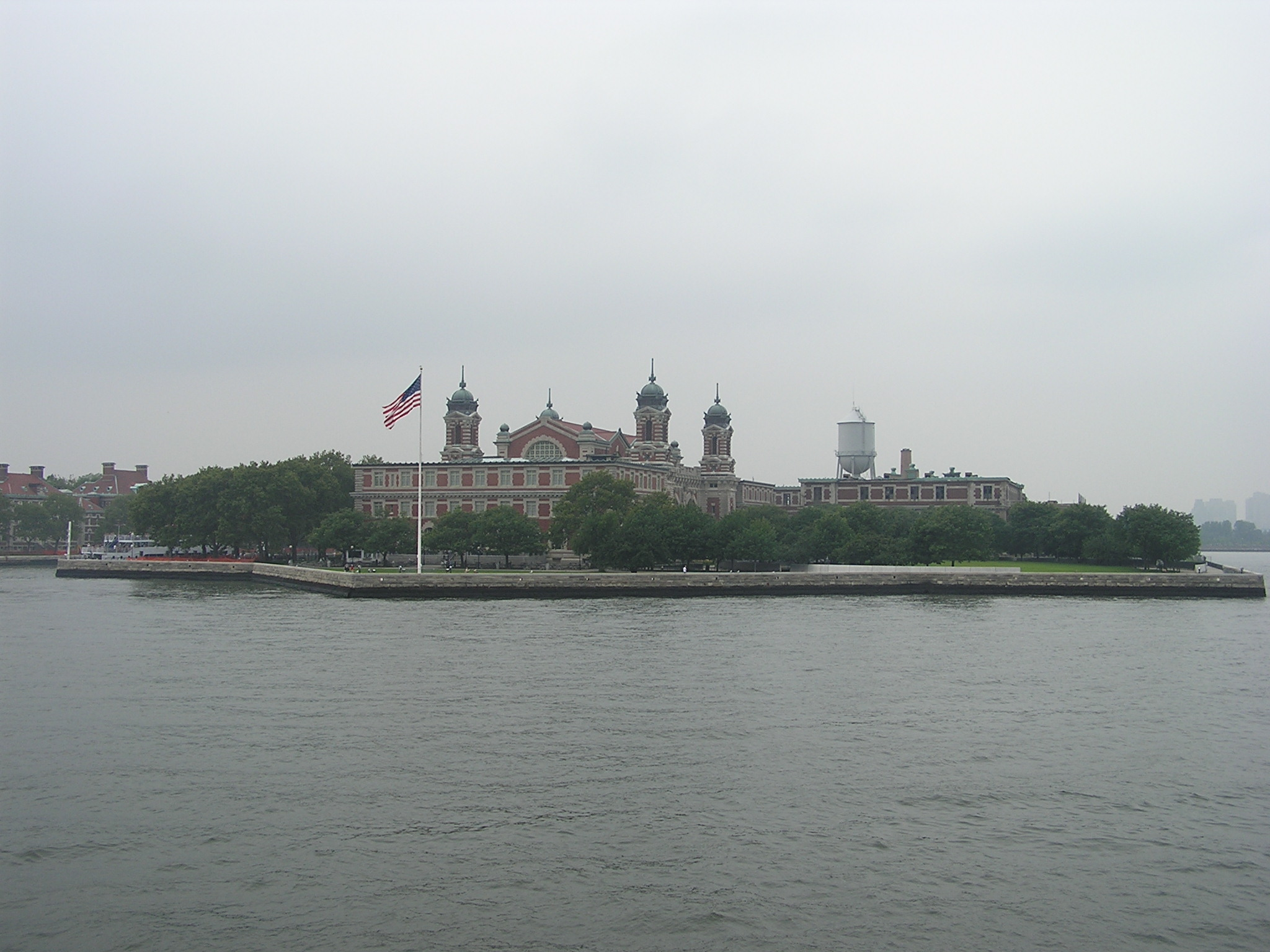 Ellis Island from the Staten Island Ferry, July, 2007.